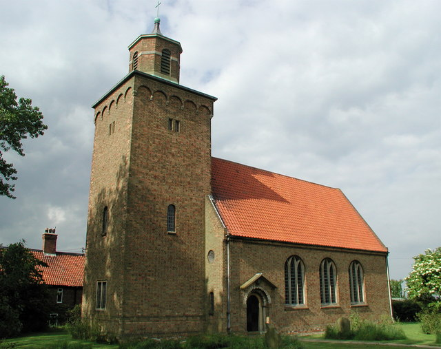 St Margaret's parish church, Hilston, East Riding of Yorkshire, England, seen from the southwest. Designed by Francis Johnson of Bridlington and completed in 1957, reusing a Norman south doorway from the original church and some 19th-century stained glass windows.